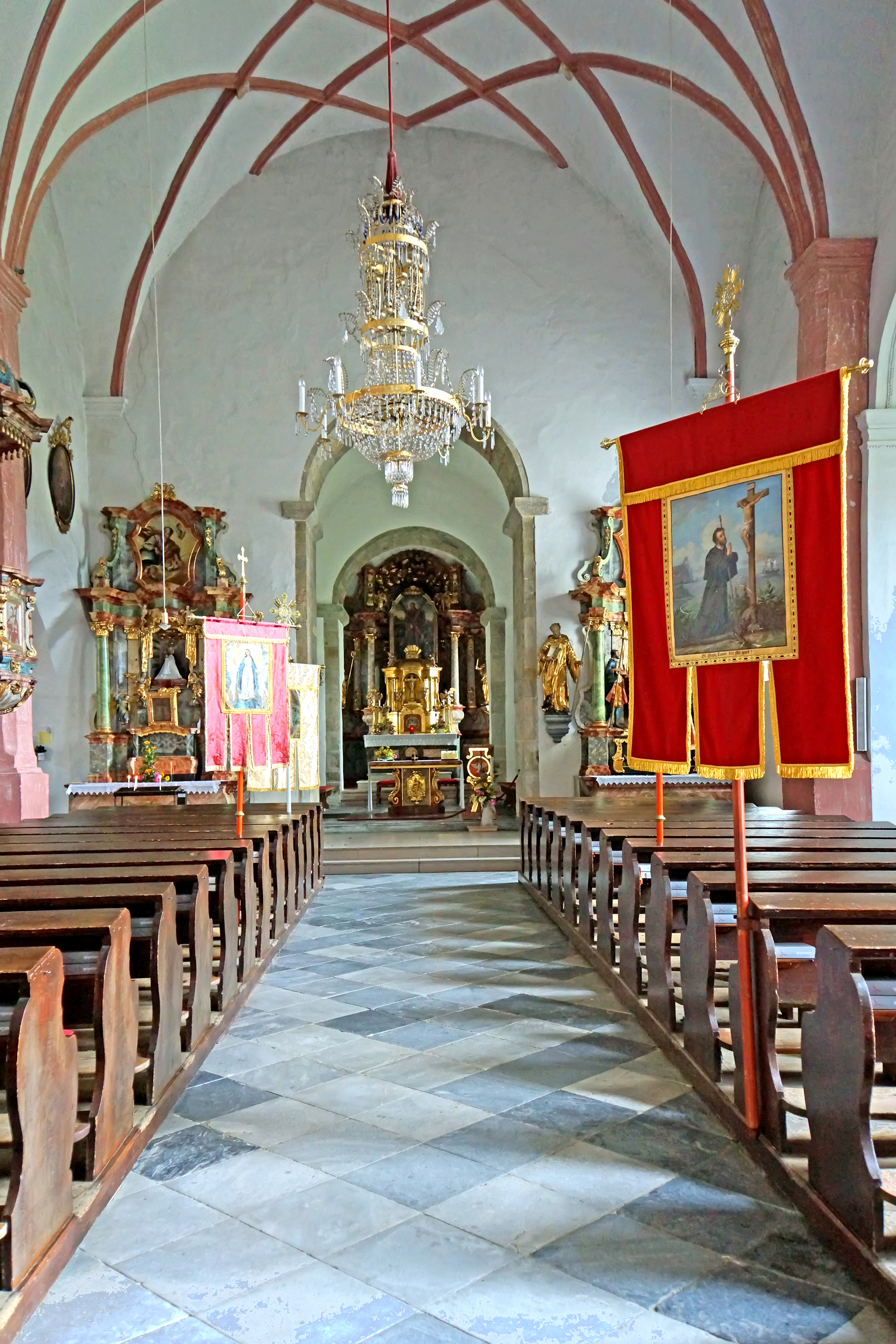 St. Andrew's Church in Piber has existed before the donation to the St. Lambrecht's Abbey in 1103. The Piber Federal Stud Farm is dedicated to the breeding of Lipizzan horses, located at the village of Piber. It was founded in 1798, began breeding Lipizzan horses in 1920, and today is the primary breeding farm that produces the stallions used by the Spanish Riding School, where the best stallions of each generation are bred and brought for training and later public performance. One of Piber’s major objectives is "to uphold a substantial part of Austria’s cultural heritage and to preserve one of the best and most beautiful horse breeds in its original form." The Lipizzan breed as a whole, suffered a setback when a viral epidemic hit the Piber Stud in 1983. Forty horses and eight percent of the expected foal crop were lost. Since then, the population at the farm has increased, with 100 mares as of 1994 and a foal crop of 56 born in 1993. In 1994, the pregnancy rate increased from 27% to 82% as the result of a new veterinary center.